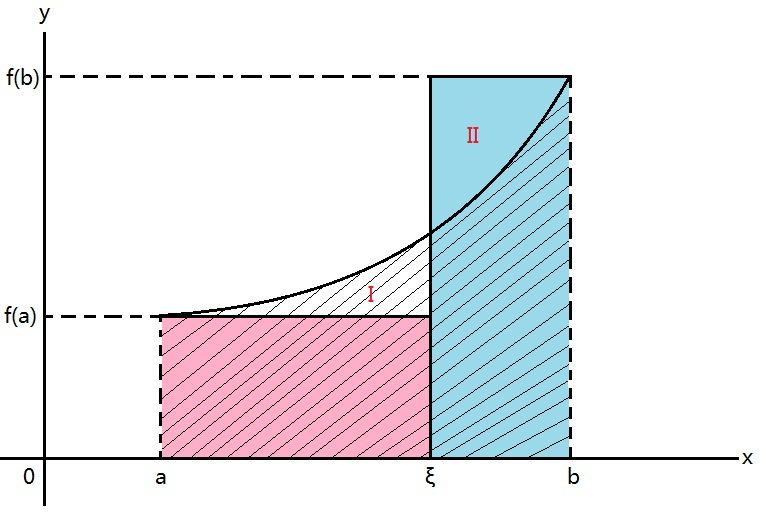 Geometric Explanation for II Integration Mean-Value Theorem